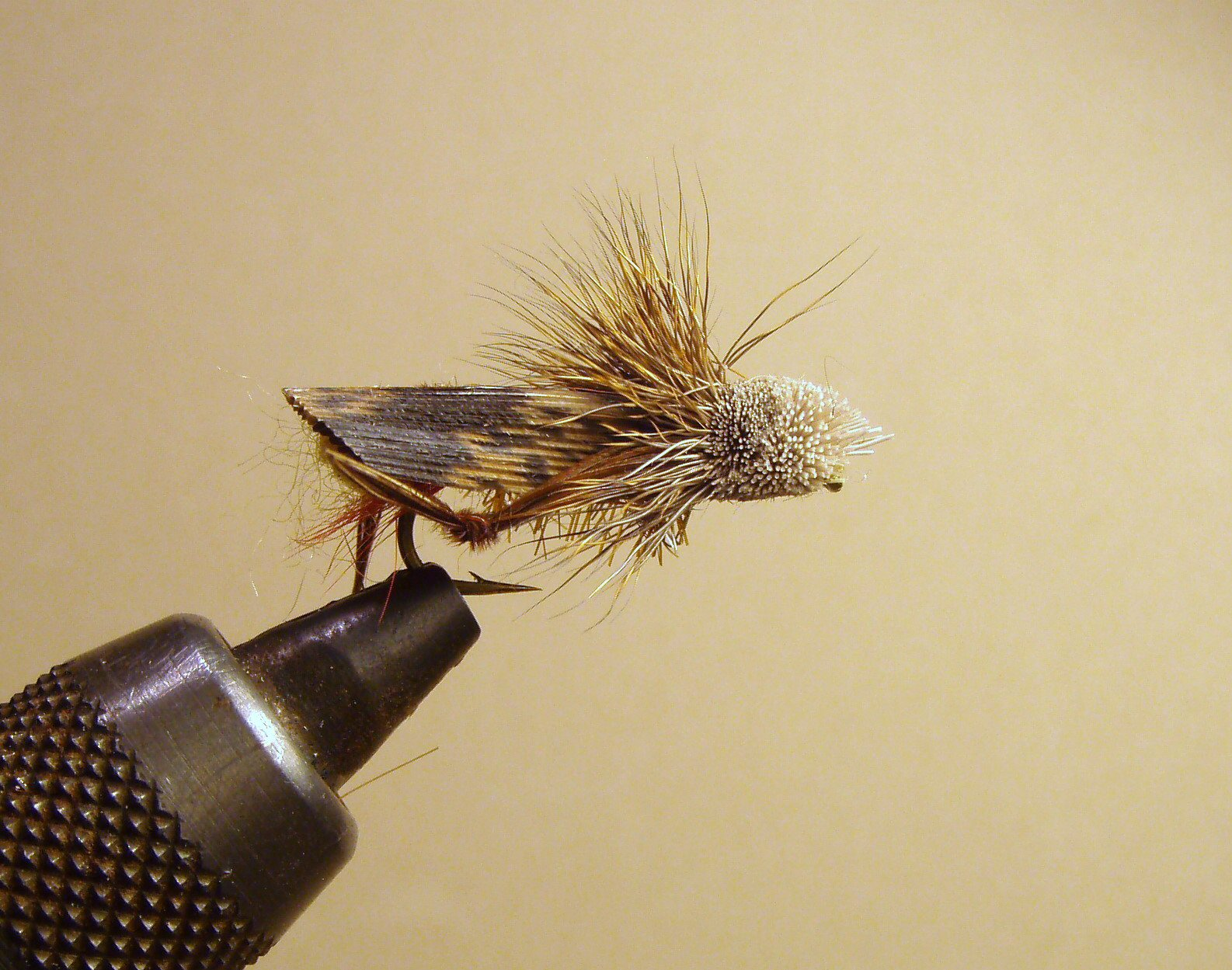 Dave's Hopper - A Terrestrial Dry Fly Imitating a Common Grasshopper